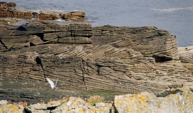 Cross-bedding on Bressay A fine example of cross-bedding in Middle Old Red Sandstone on the Isle of Bressay, Shetland Islands